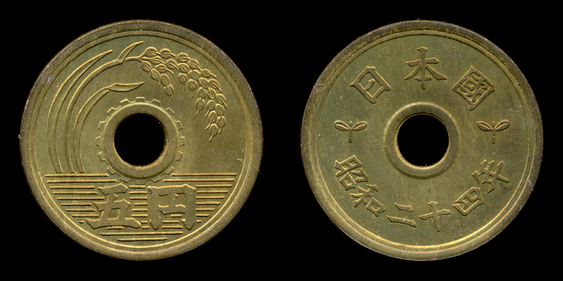 5yen-S24